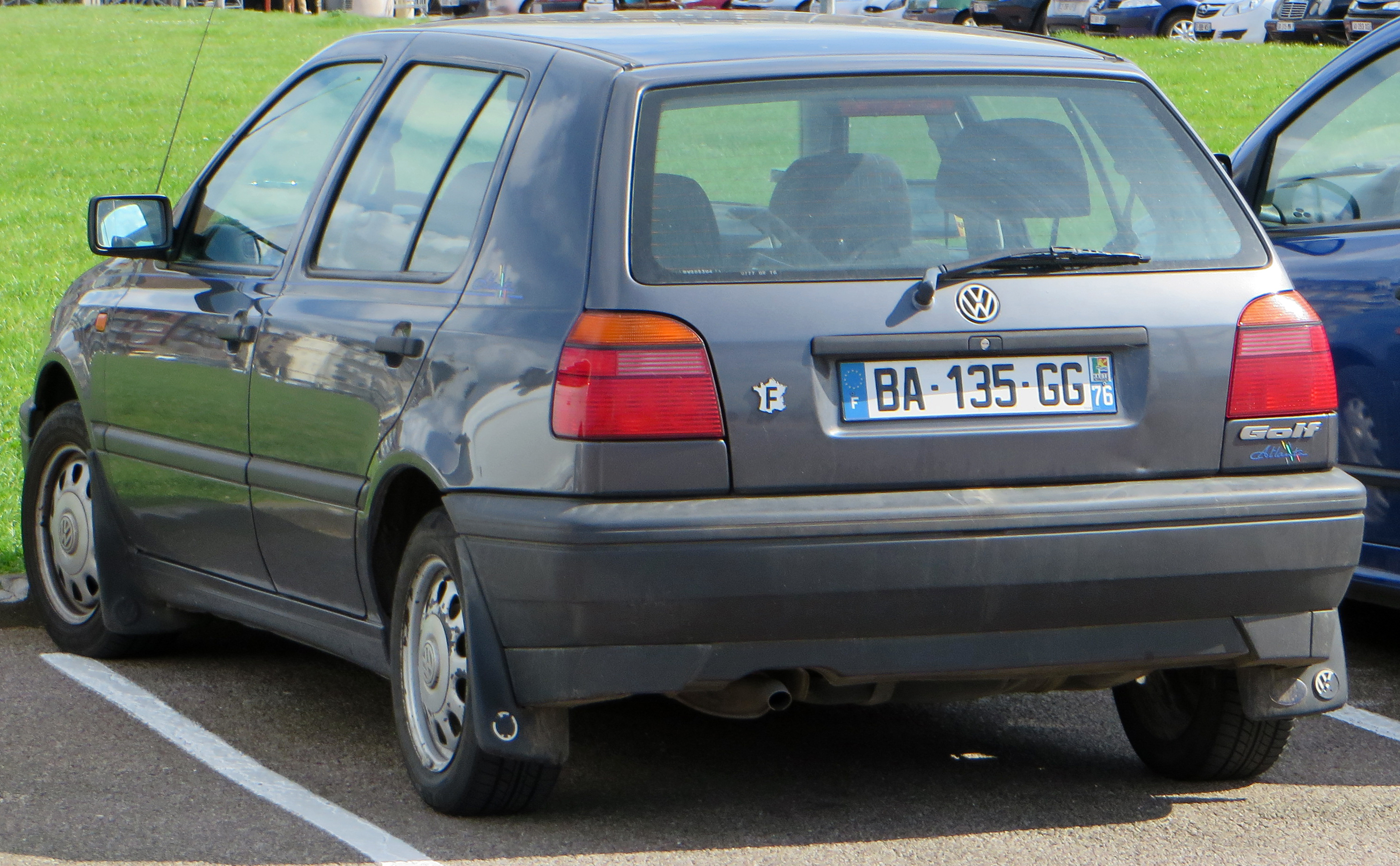 1993 Volkswagen Golf III "Atlanta" Adding a few extras to the "S" trim.